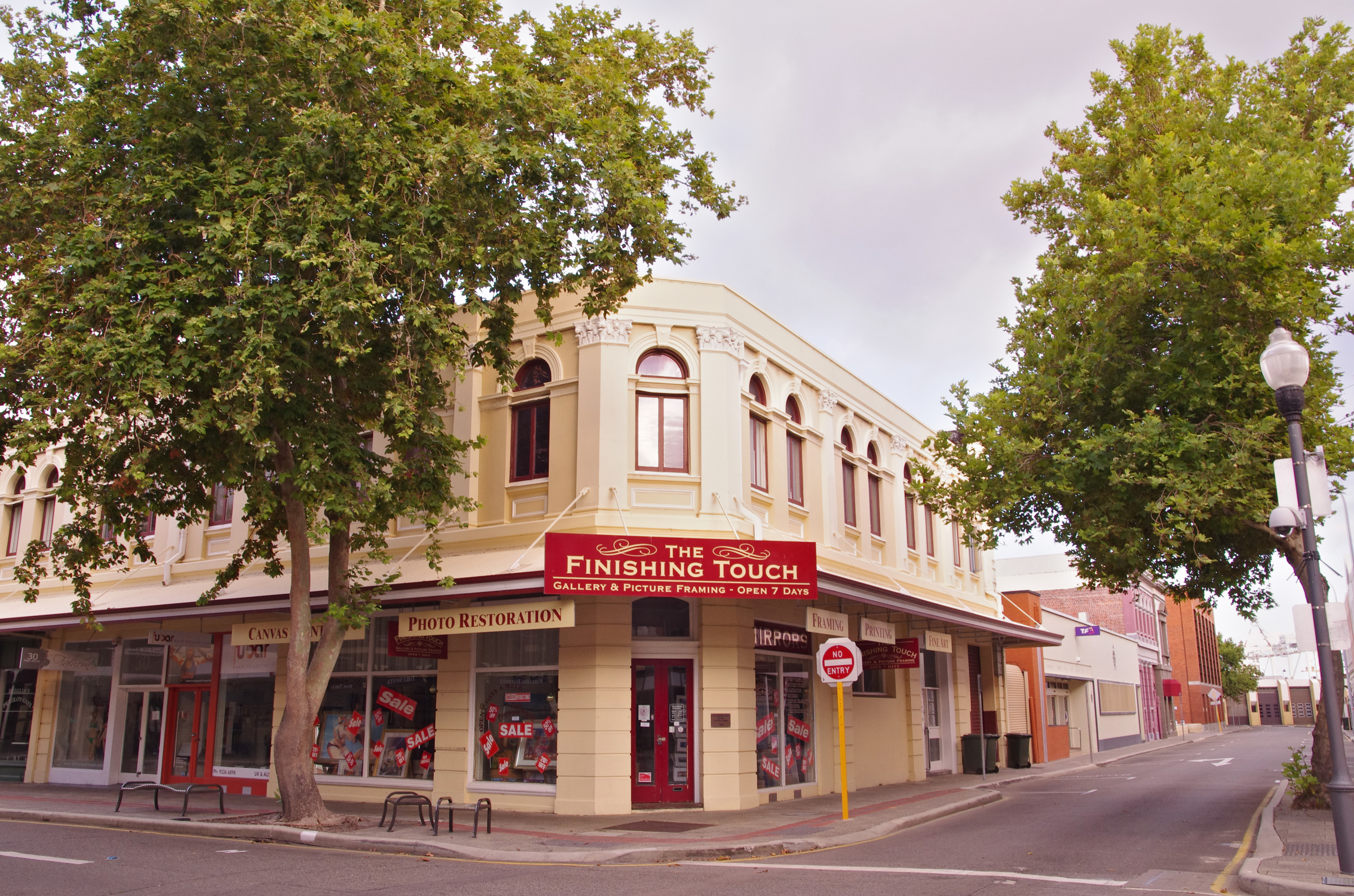 Object location32° 03′ 18.59″ S, 115° 44′ 38.37″ E Adelec Buildings